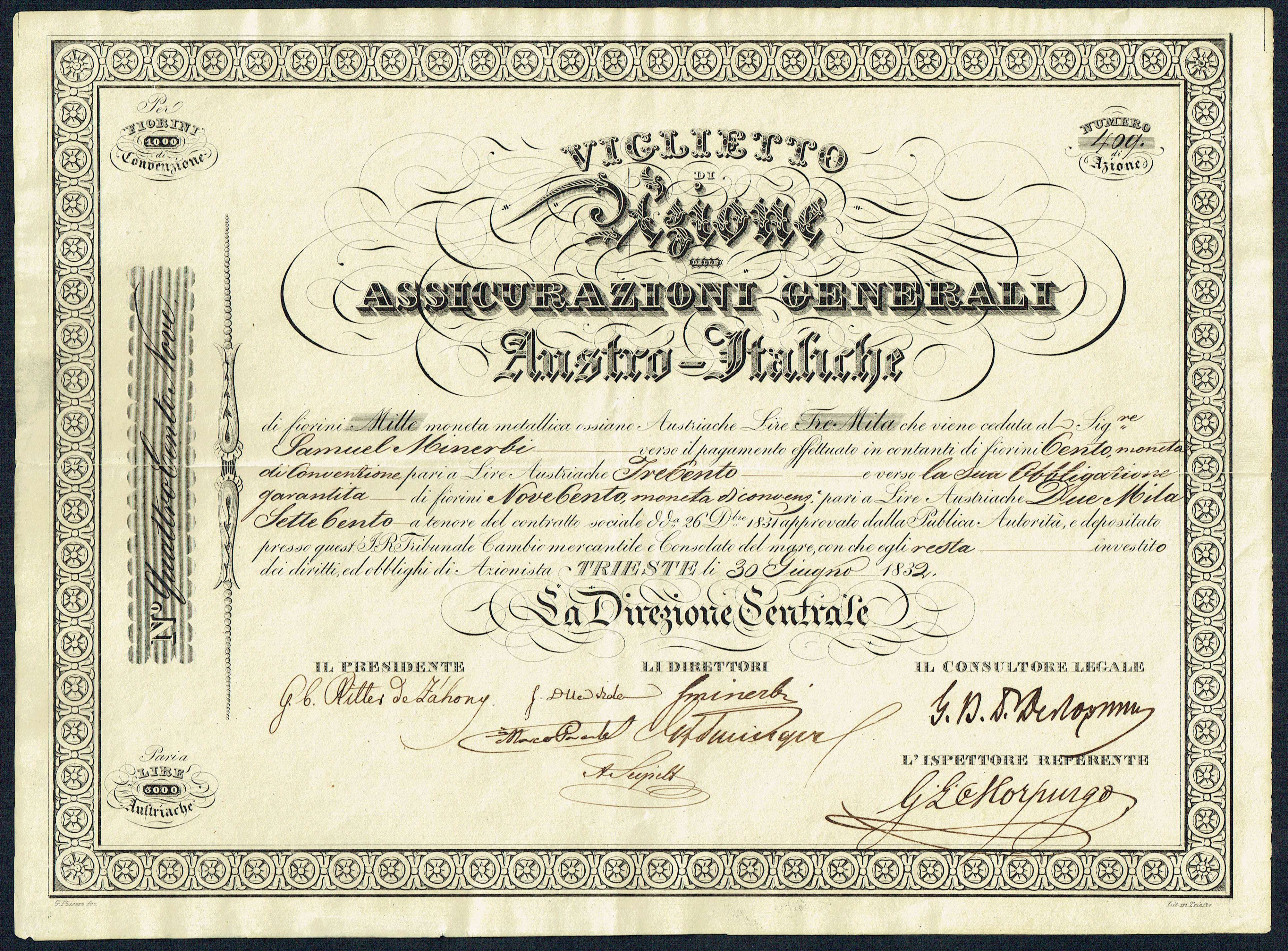 Founder share of the Assicurazioni Generali Austro-Italiche, issued 30. June 1832